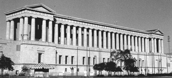 National Parks Service image of Soldier Field in 1982